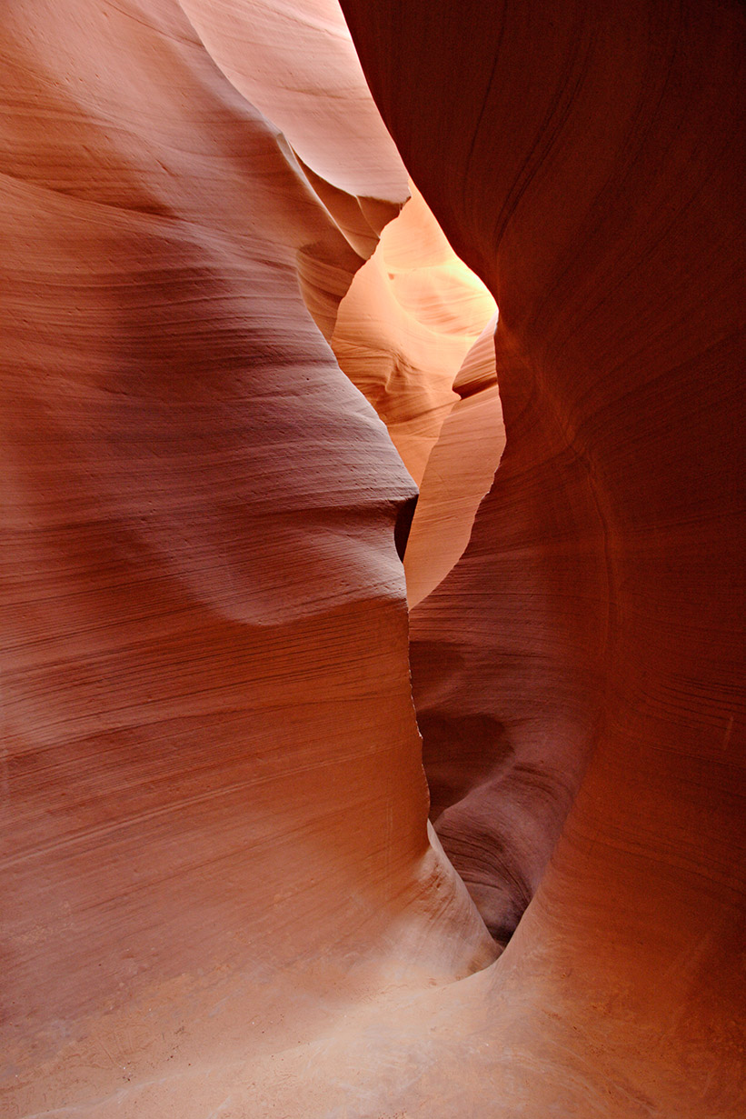 Inside Lower Antelope Canyon, featuring red sandstone corridors.